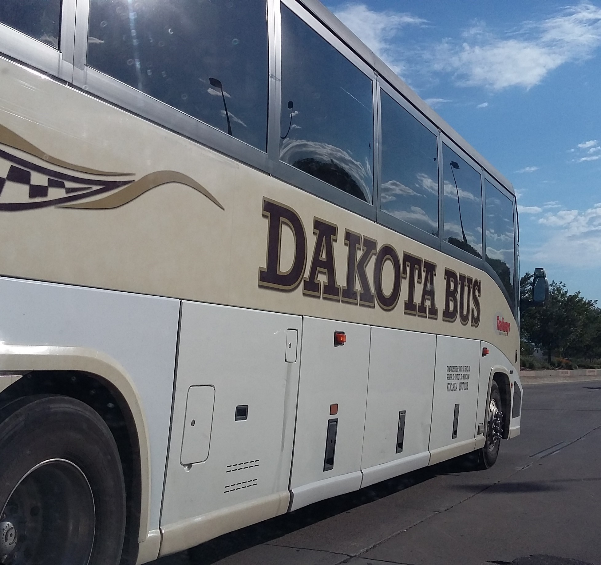 Dakota Bus, Trailways, Denver, Colorado